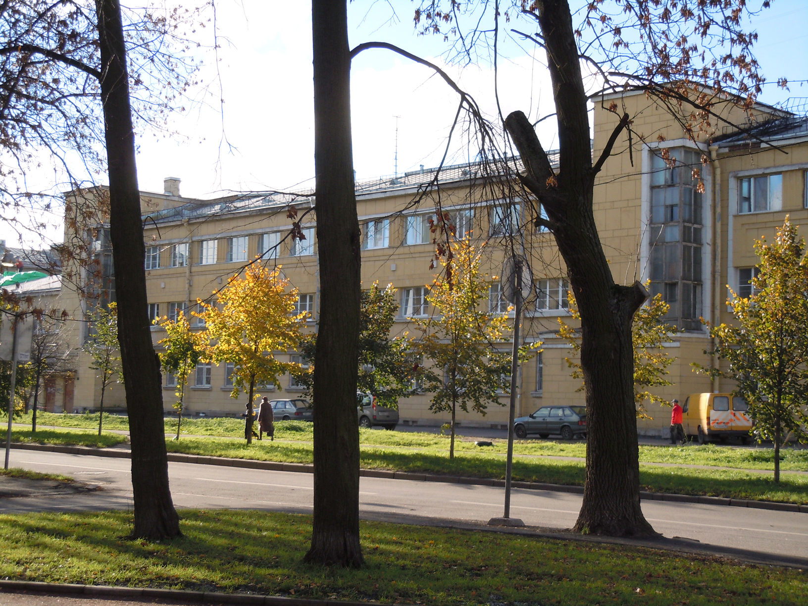 Preventorium of the Kirov district